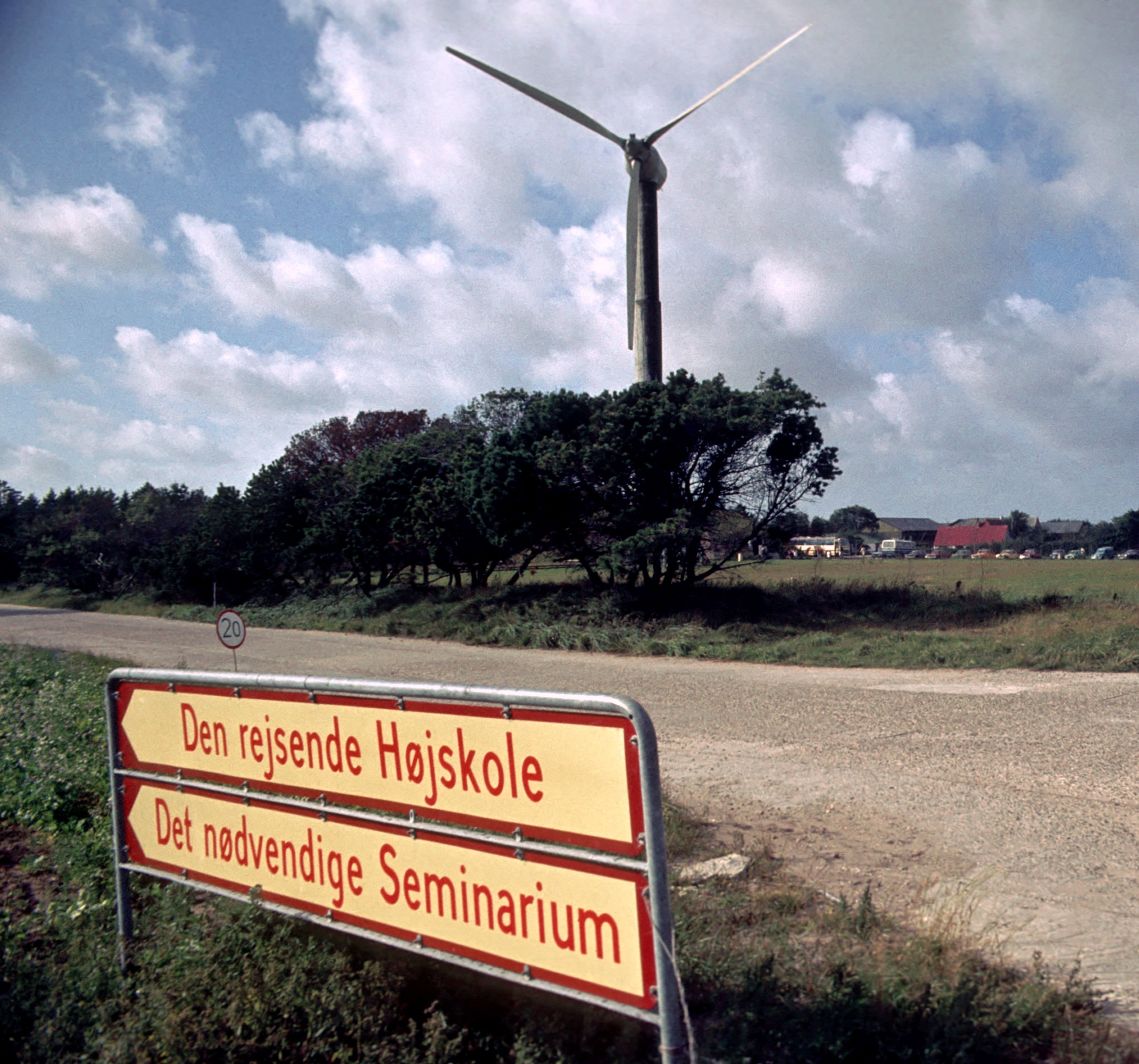 Tvind mill, Denmark